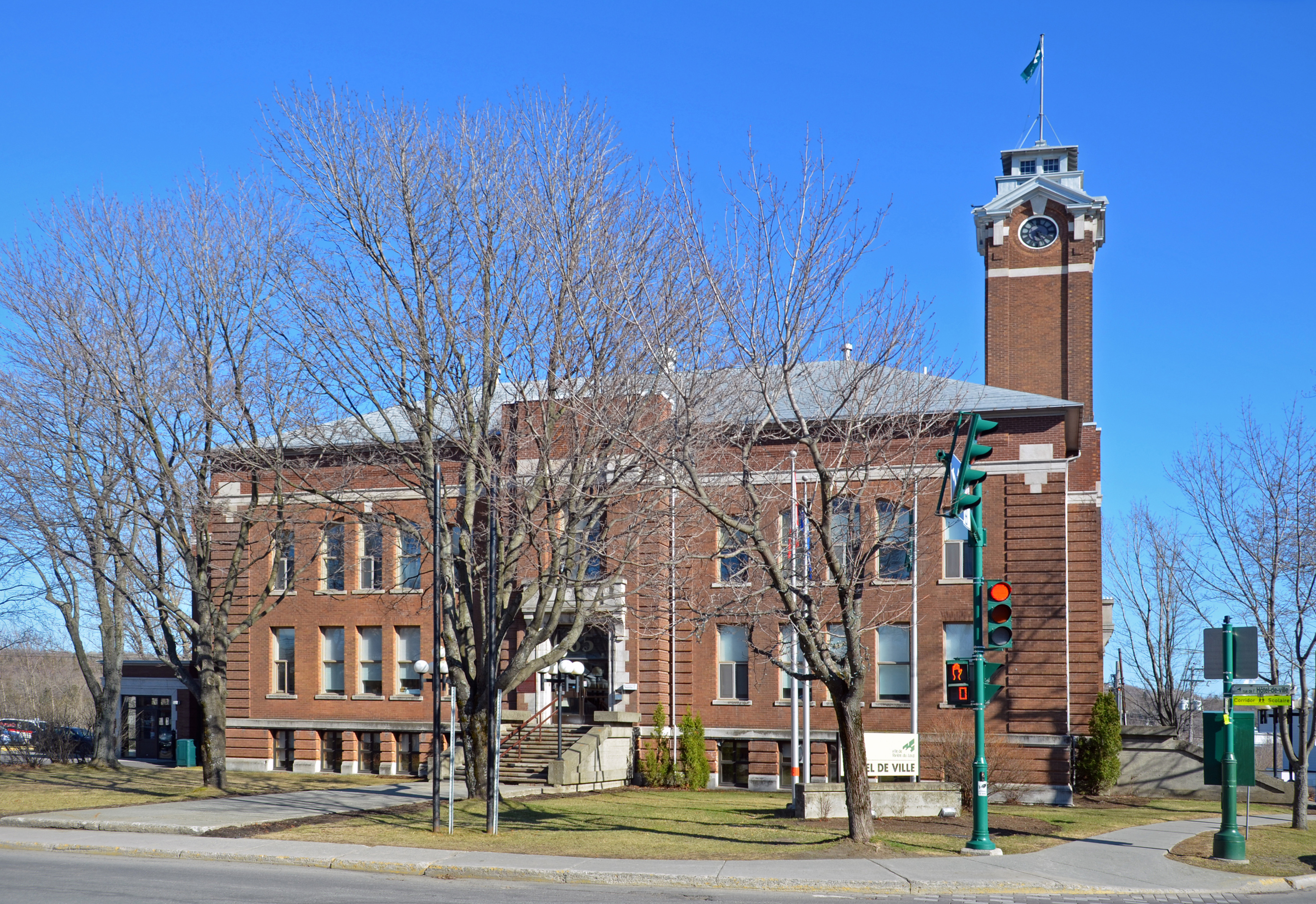 City hall - Rivière-du-Loup, Quebec